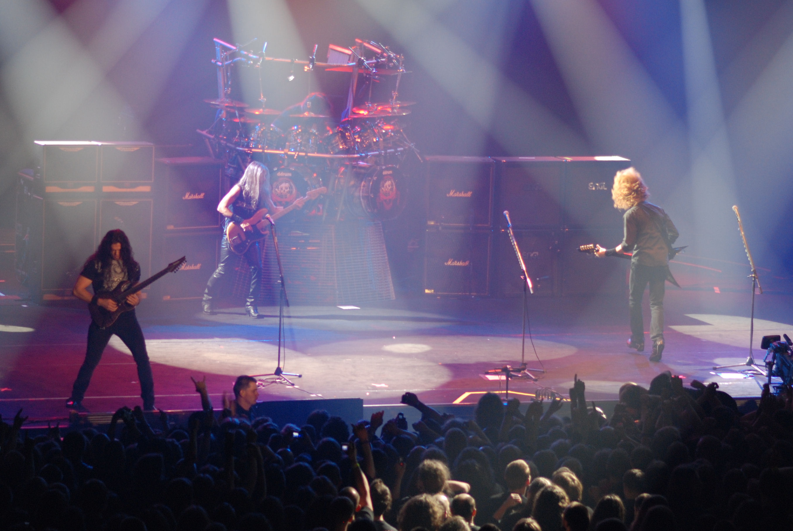 Megadeth during Metalmania 2008 festival